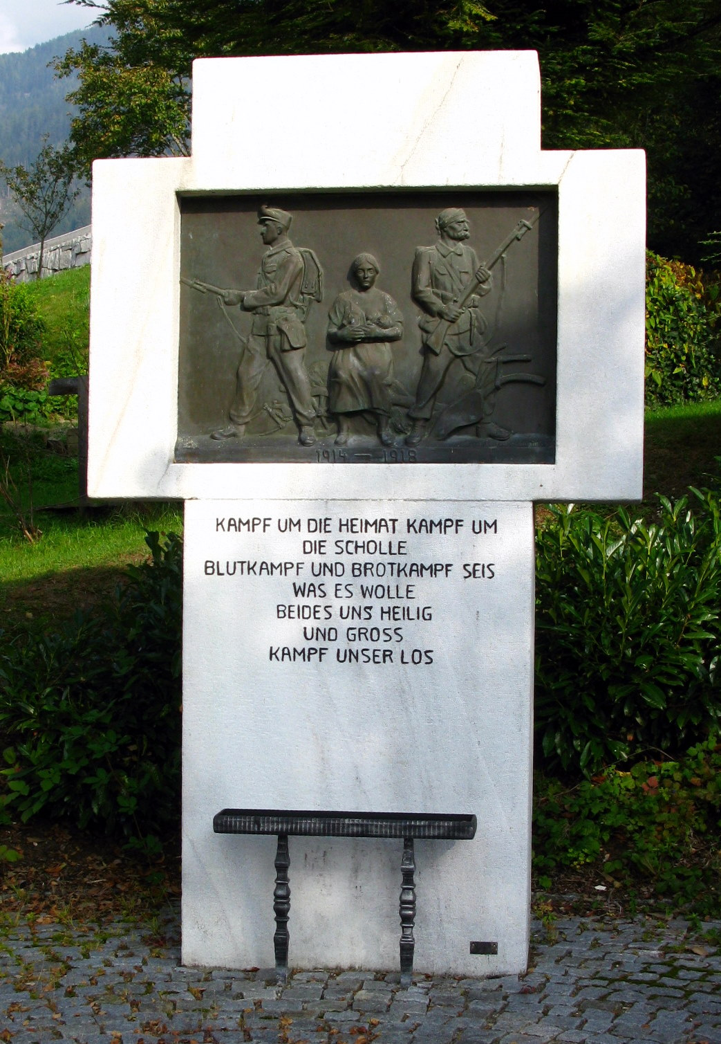 War Memorial in village Obermillstatt near Lake Millstatt (Millstätter See), district Spittal an der Drau in Carinthia / Austria / EU. The war memorial was created by Friedrich Gornik 1877-1943 and texted by Guido Zernatto (1903-1943) in the late 1930s. The erection of the monument was decided by the municipal council of Obermillstatt on 24 July 1937 during the period of Austrofascism (1934-1938).[2] Inscription: “Fight for the floe blood fight and bread fight what it wants both of us holy and great fight our lot.” On two single plates to the right of the monument the dead from the First World War are listed, on the two plates to the left the dead from the Second World War.